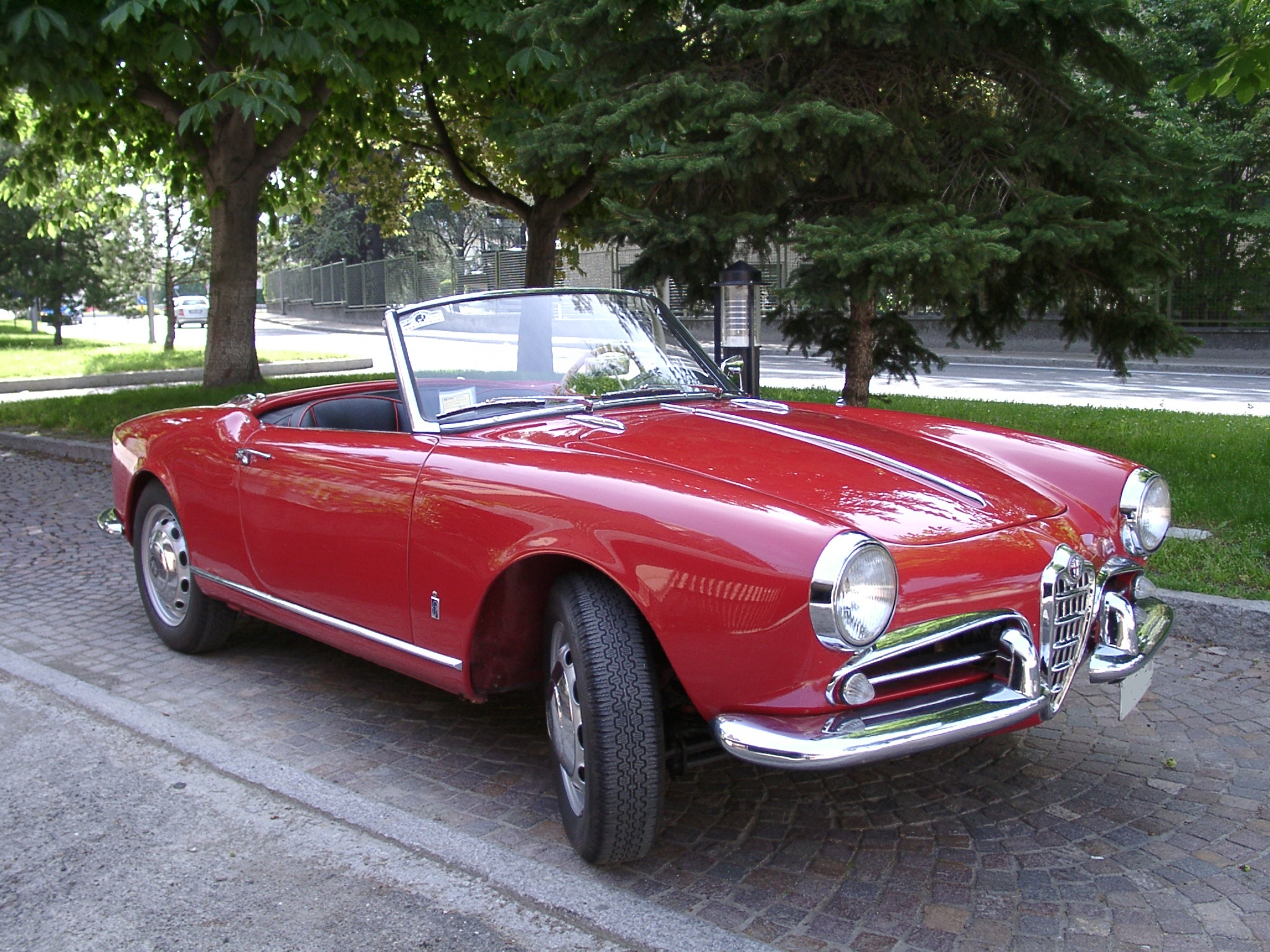 Giulietta Spider Veloce 1a serie 1958